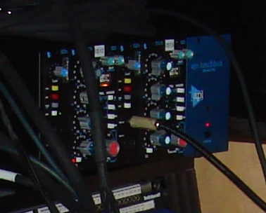 Snapshot of Songwriter, Record Producer, and singer/pianist Jeremy D. Silverman in the recording studio.